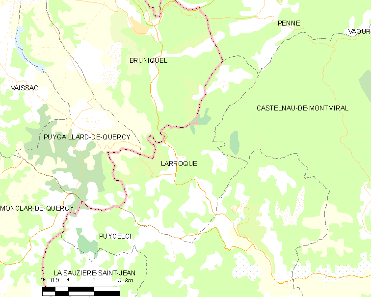 Map of French municipality Larroque